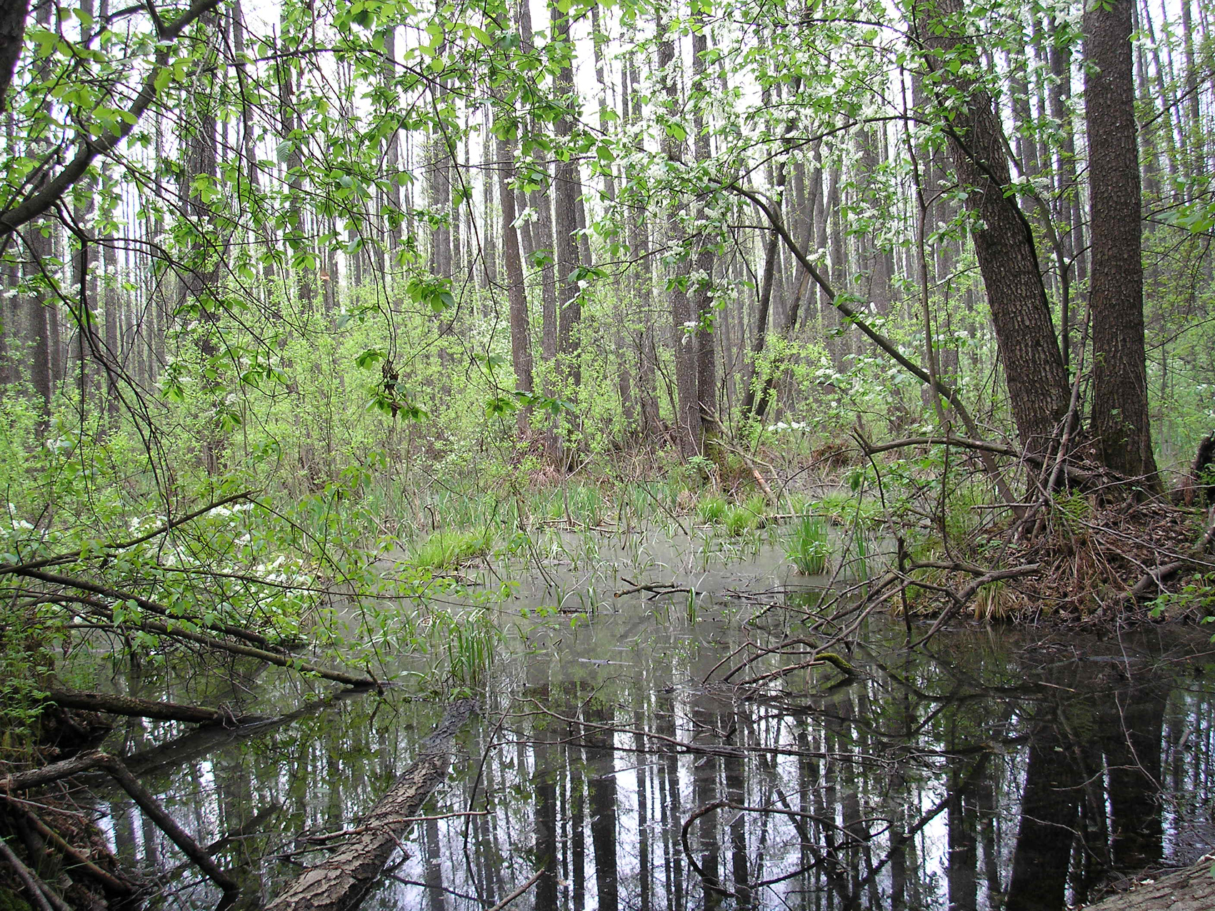 A forest at the Irdyn bog (Cherkasy region, Ukraine).